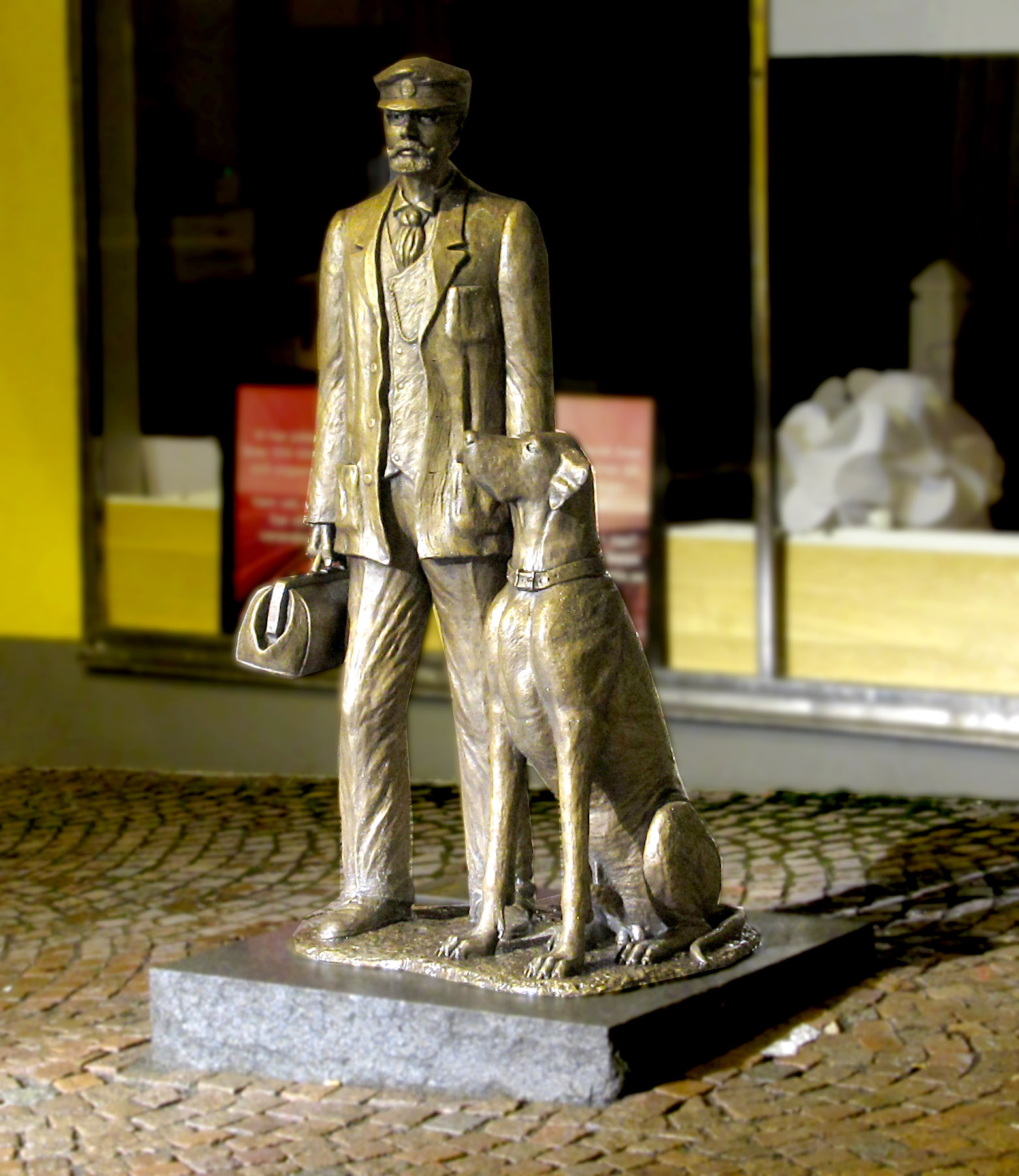 Statue of Axel Munthe in Oskarshamn, Sweden. Sculptor: Anette Rydström, 2012.